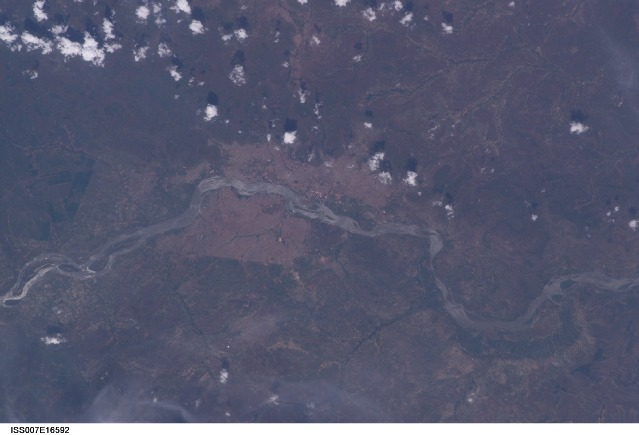 Astronaut Photo of Bamako, Mali taken from the International Space Station (ISS) during Expedition 7 on October 7, 2003.